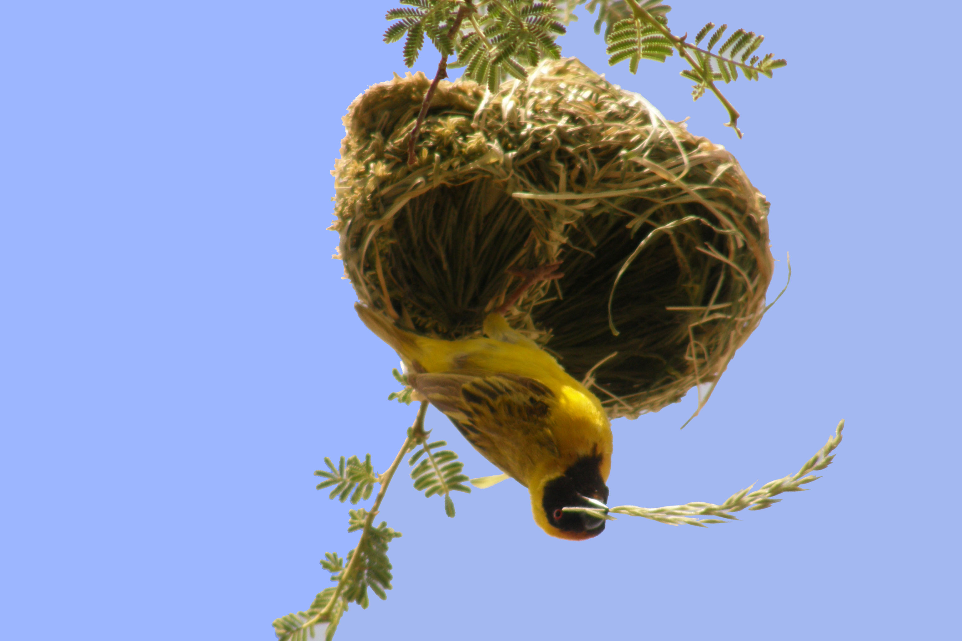 Southern Masked Weaver, Etosha National Park